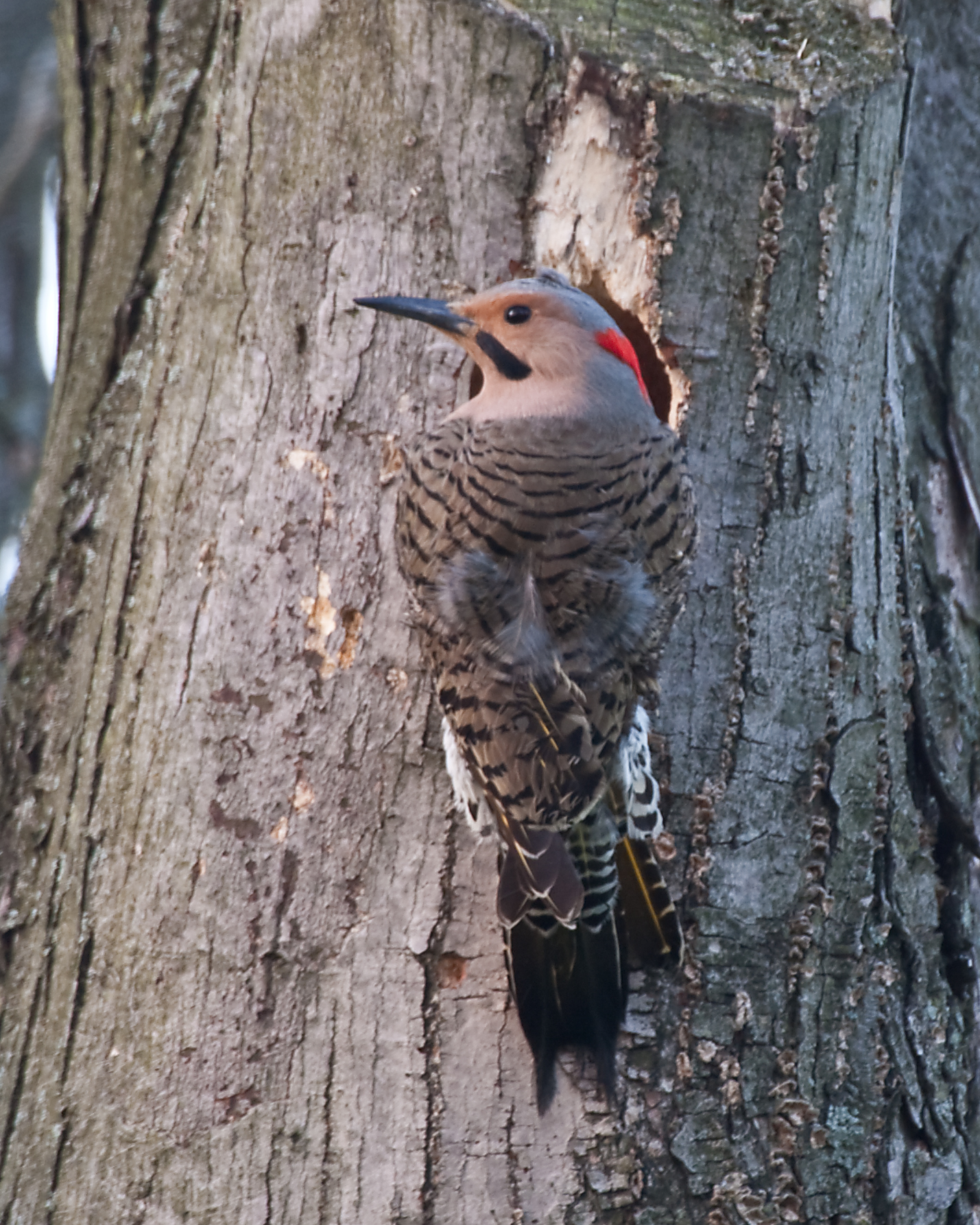 Male northern flicker - taken in Cincinnati, OH.